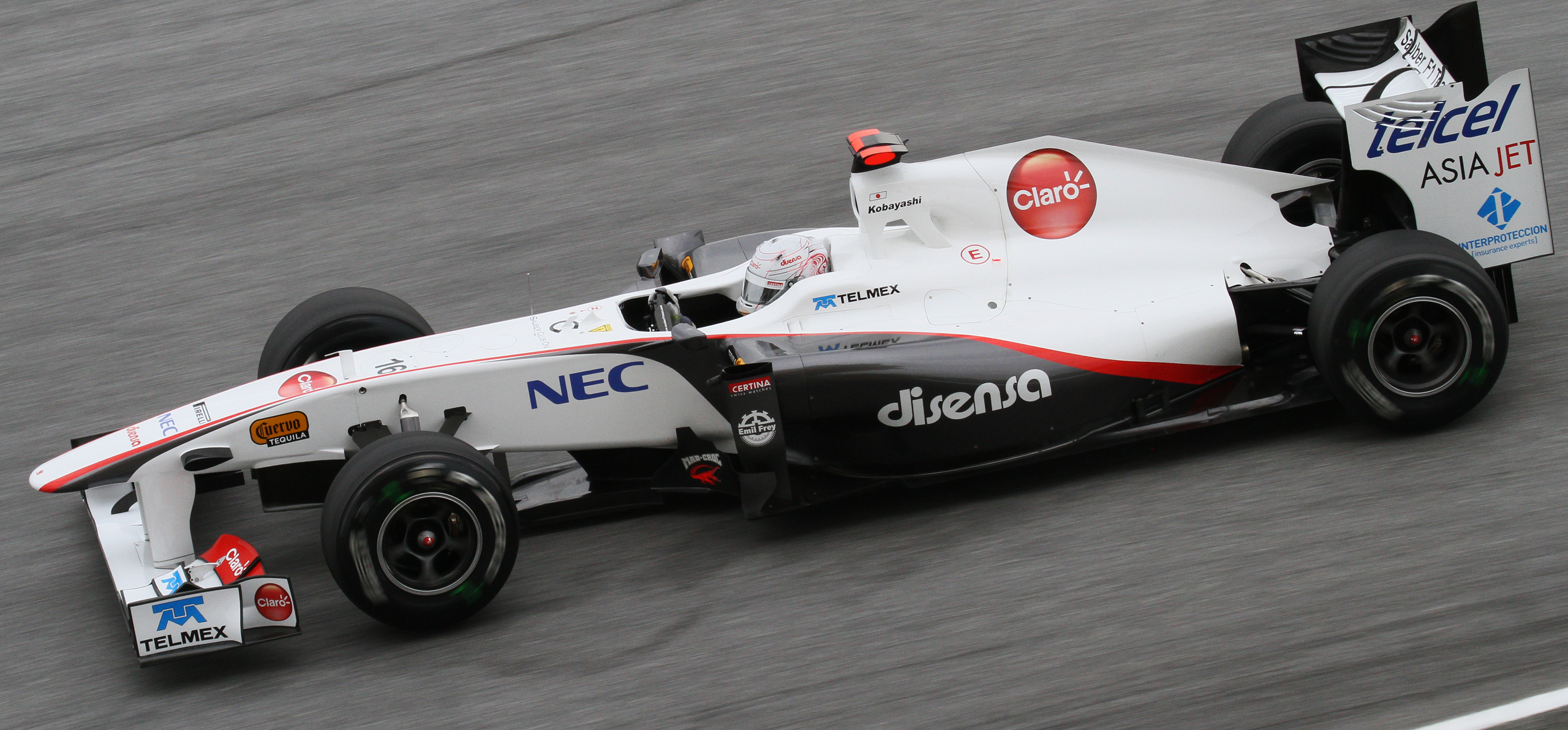 Formula One 2011 Rd.2 Malaysian GP: Kamui Kobayashi (Sauber) during the first practice session on Friday.